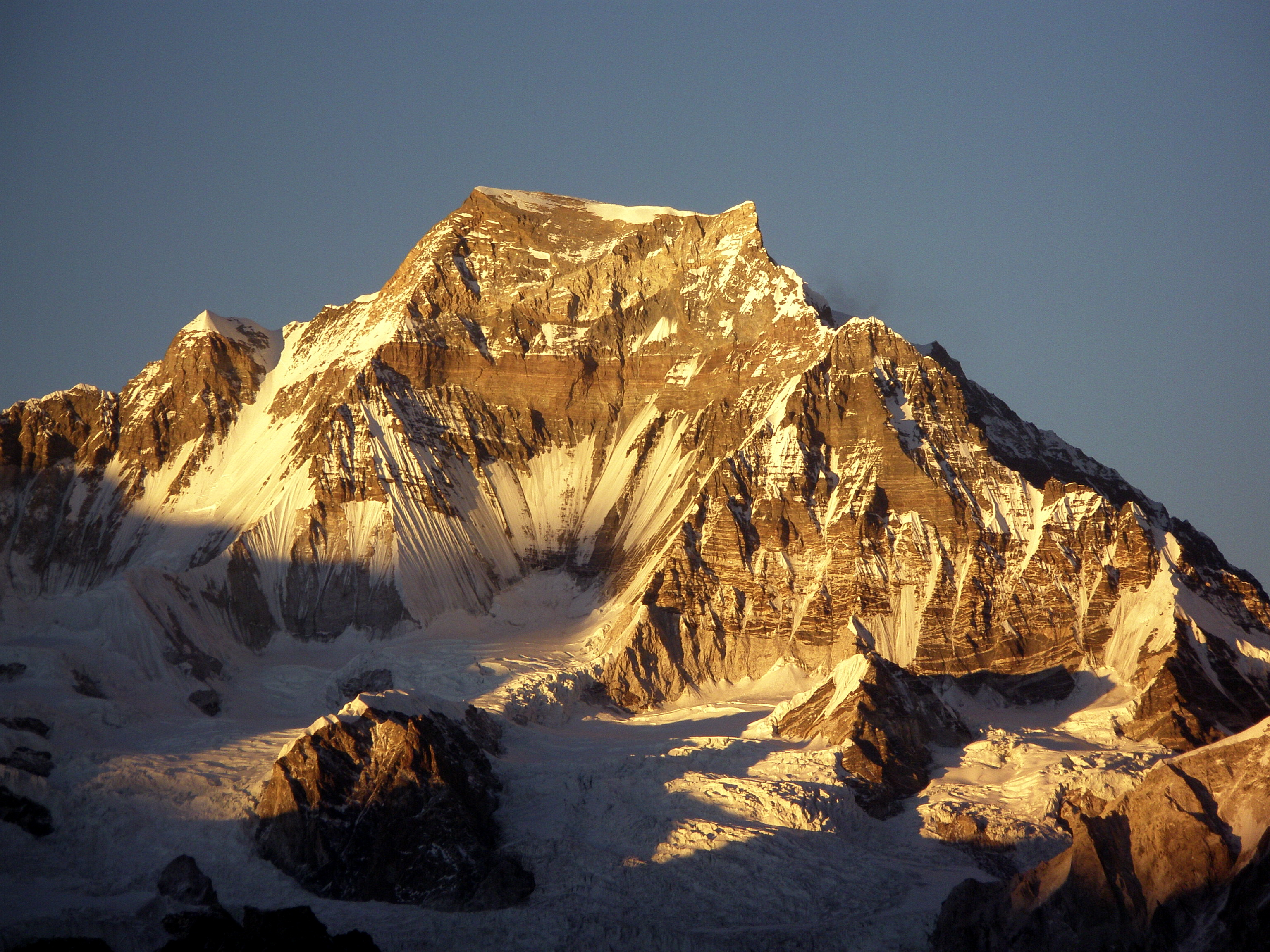 Gyachung Kang at dusk